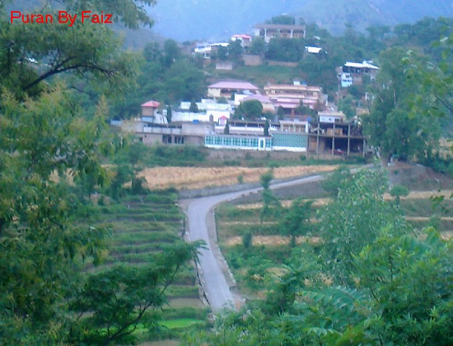 Chagum Puran Shangla